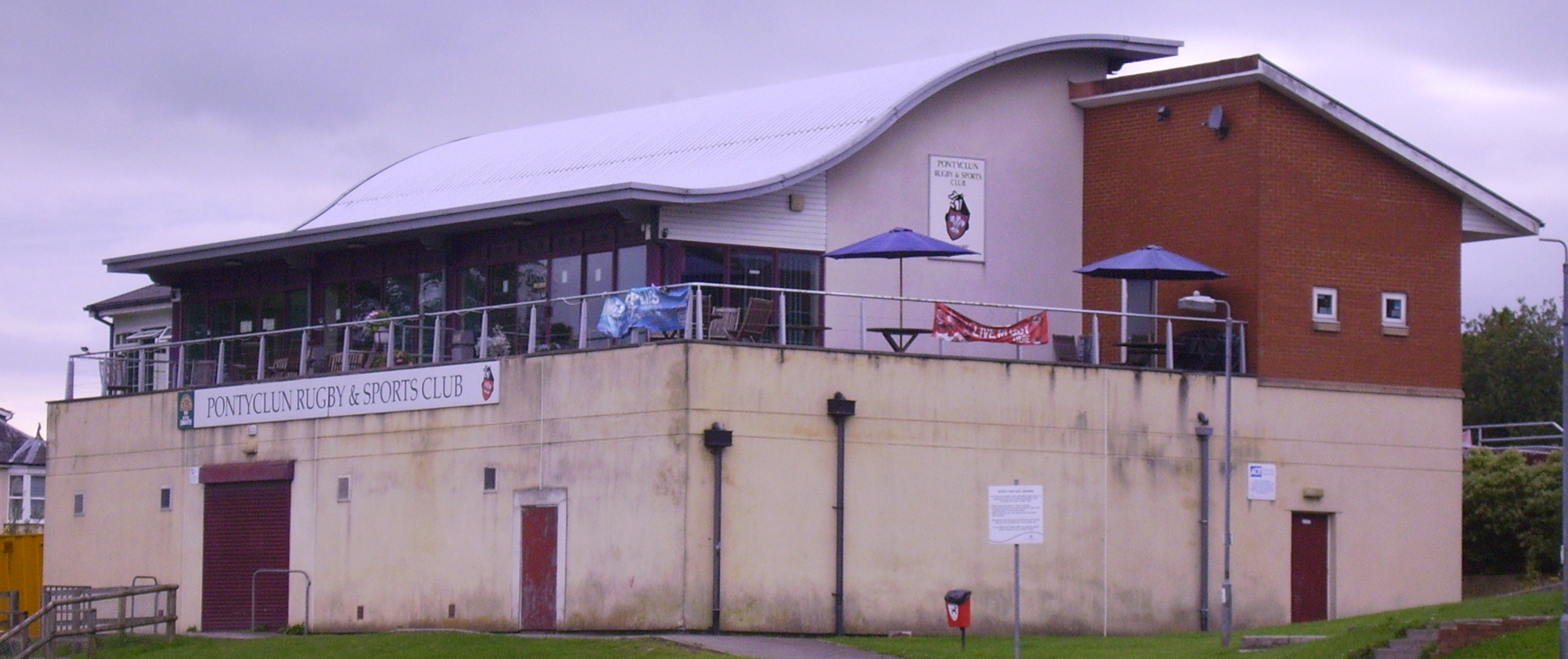 Pontyclun rugby union club, Rhondda Cynon Taff, Wales clubhouse